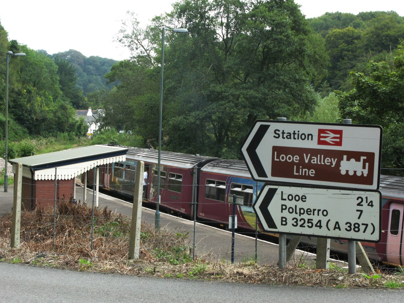 Sandplace railway station, Cornwall, United Kingdom. 150238 picks up passengers travelling to looe.